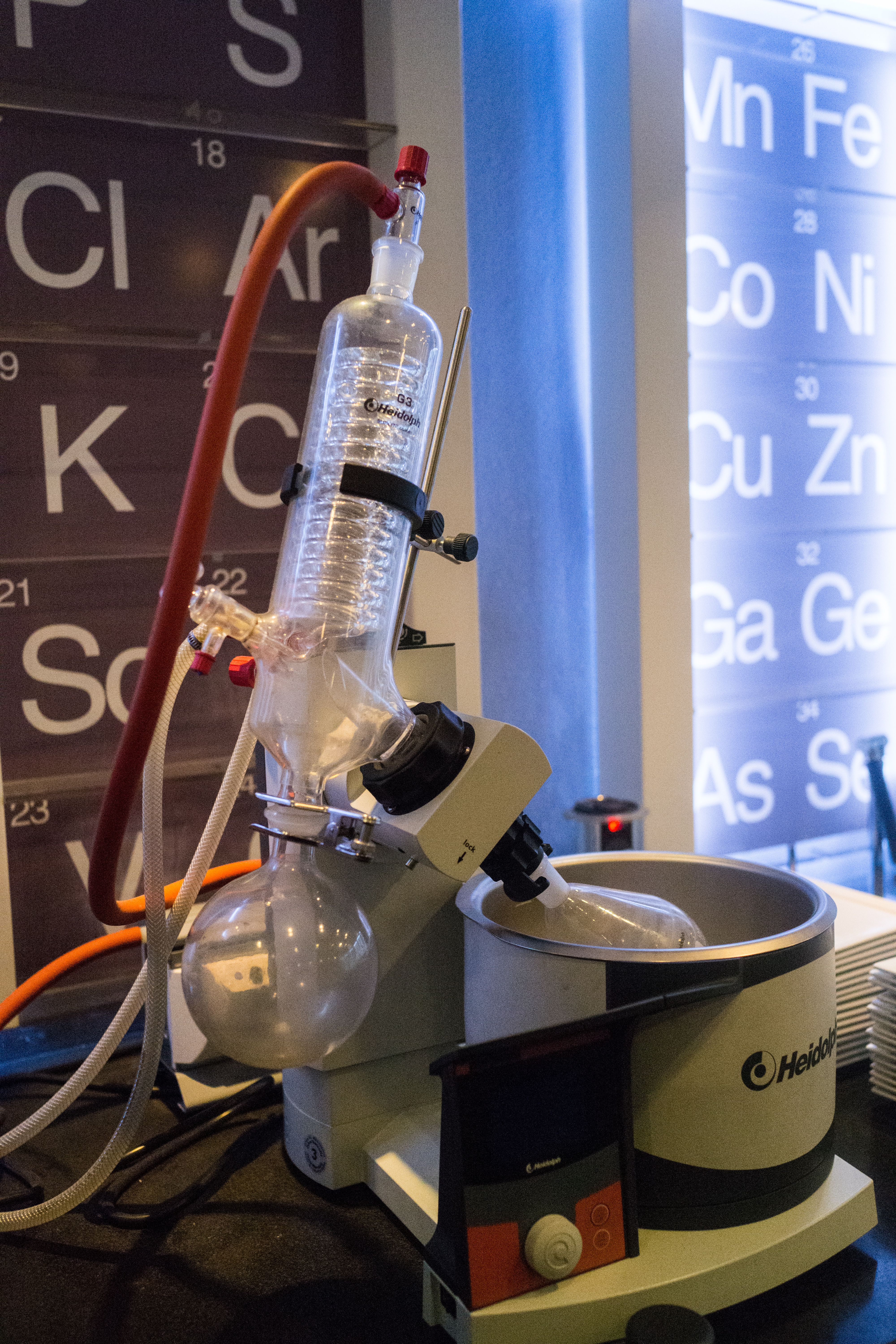 moto Chicago as used by Homaro Cantu